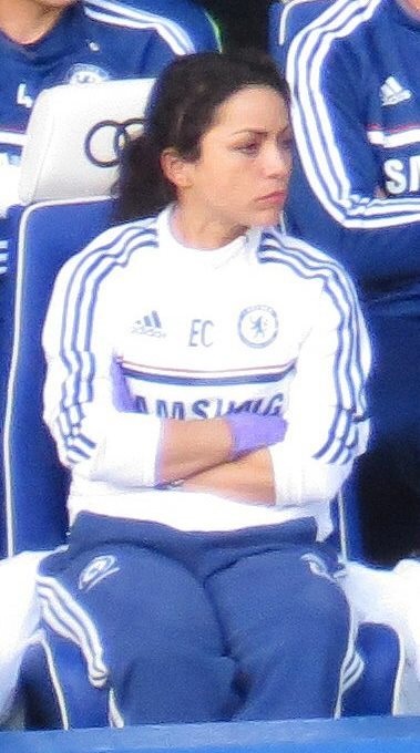 Eva Carneiro on the bench at Stamford Bridge in April 2014.